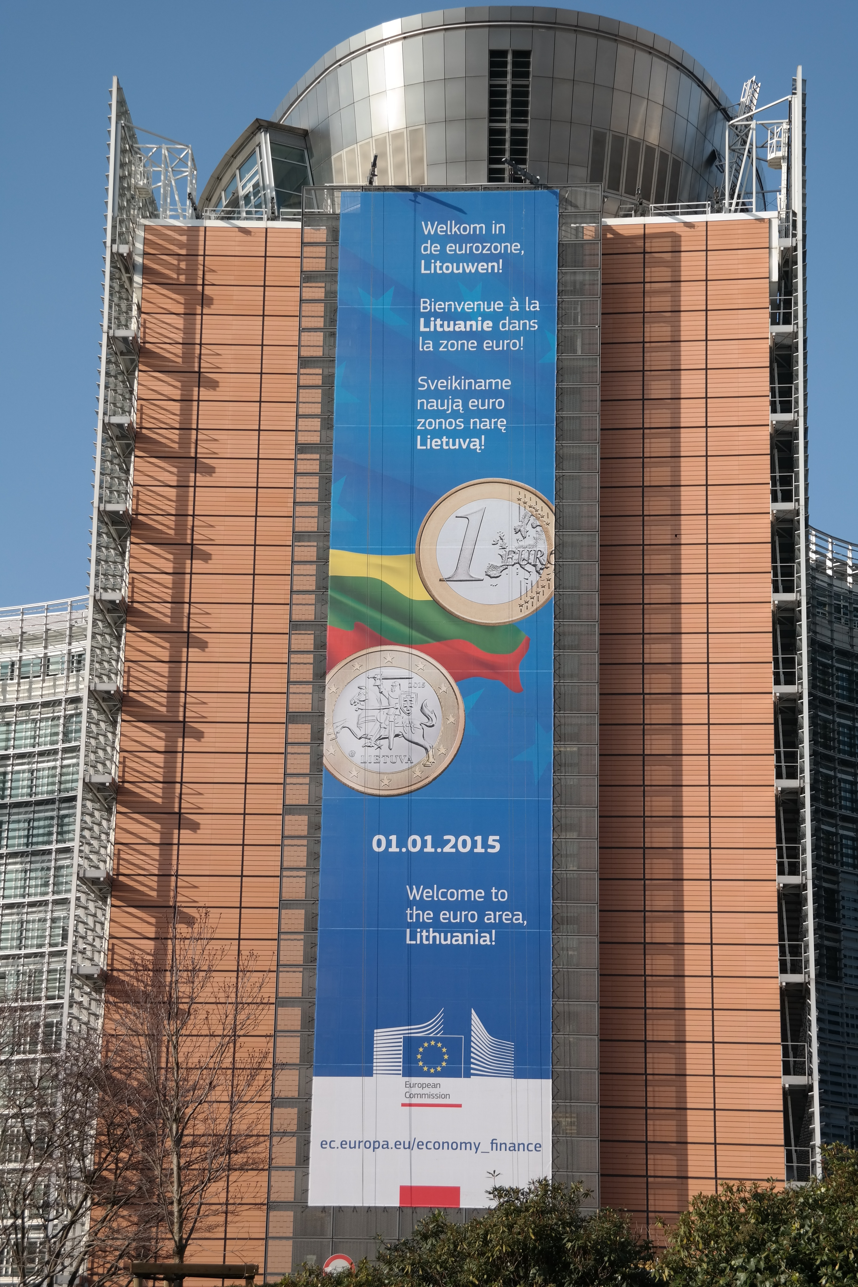 The Berlaymont building in Brussels.